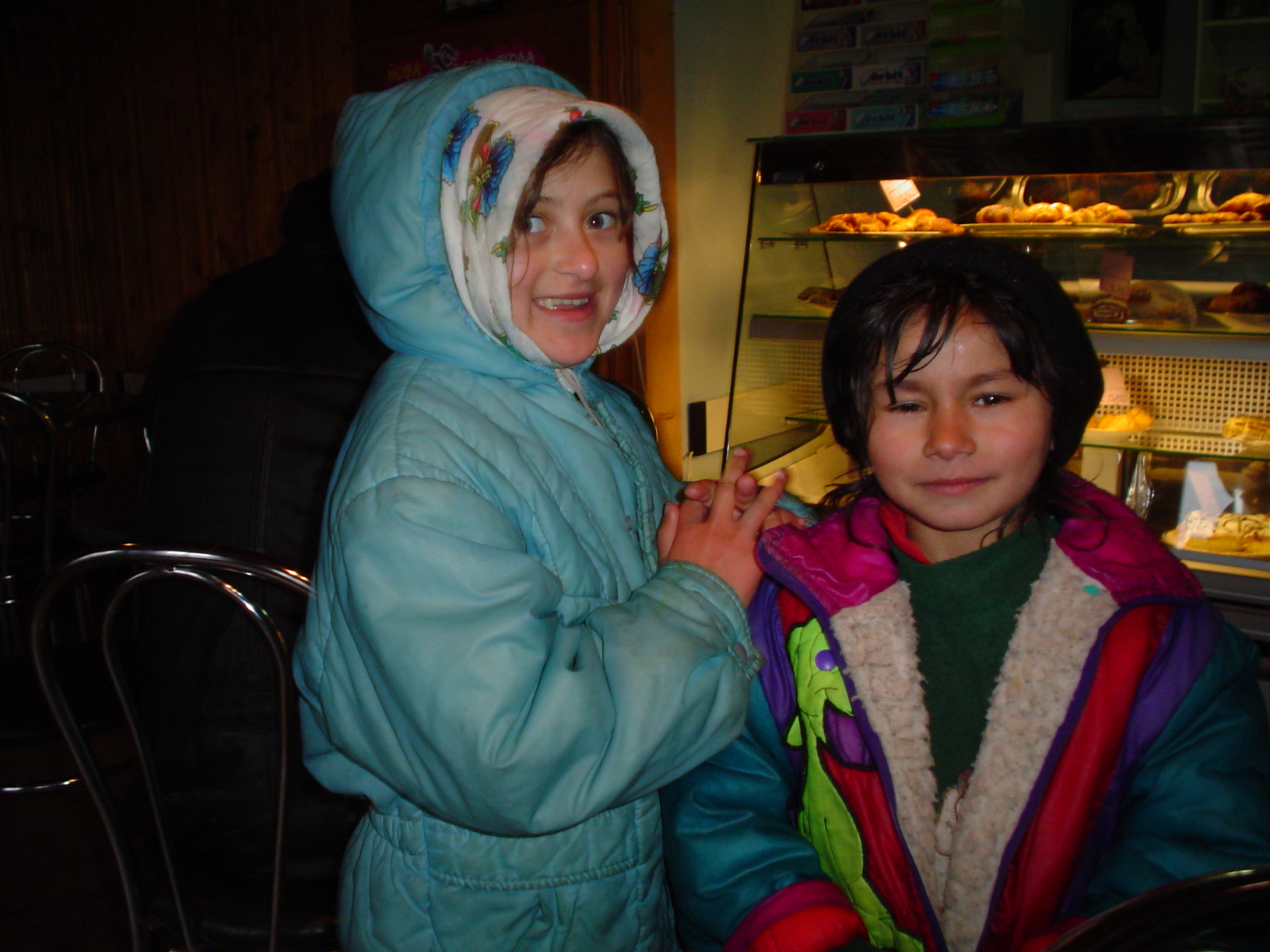 Roma children from Dubove, Ukraine